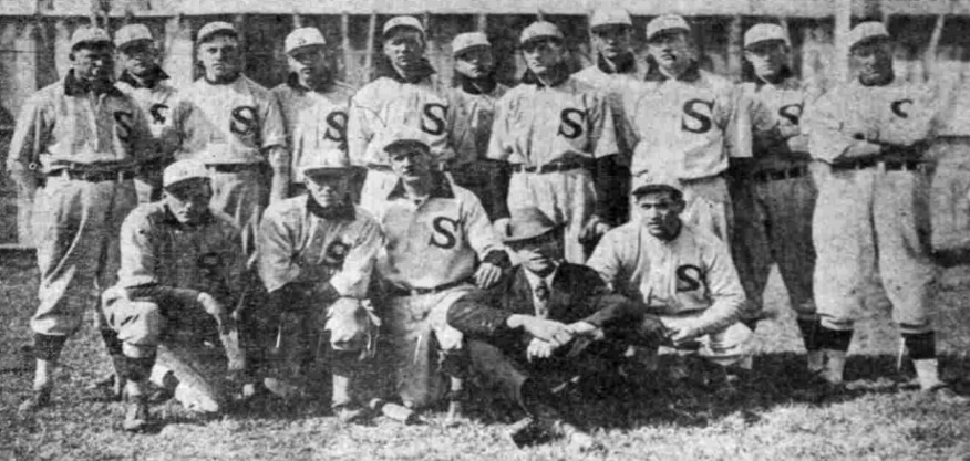 The 1909 Spokane Indians from left to right, top to bottom: Jack Barnett, Dellar, Harry Ostdiek, Bobby James, Fred Weed, Victor Holm, Jack Clynes, Vean Gregg, Bill Brinker, John Connors, Si Jensen, Bob Brown, Joe Altman, Gene Wright, Walter Stevens